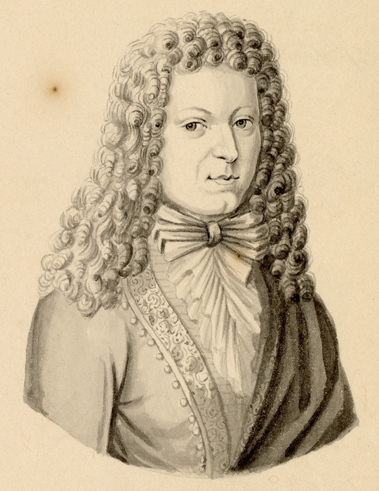 Depicted person: Johann Kuhnau